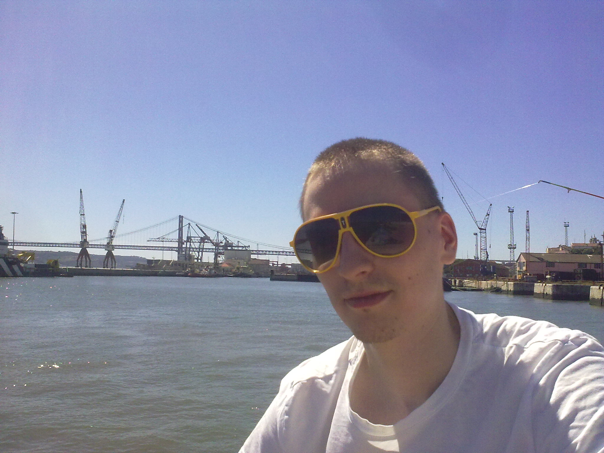 Timo by the lisbon river